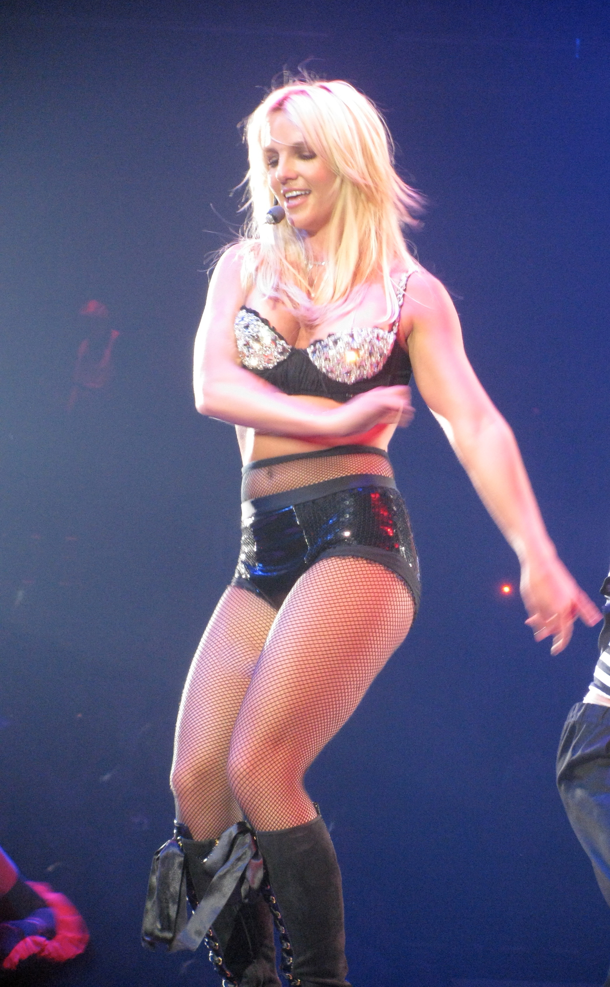 Performing Radar